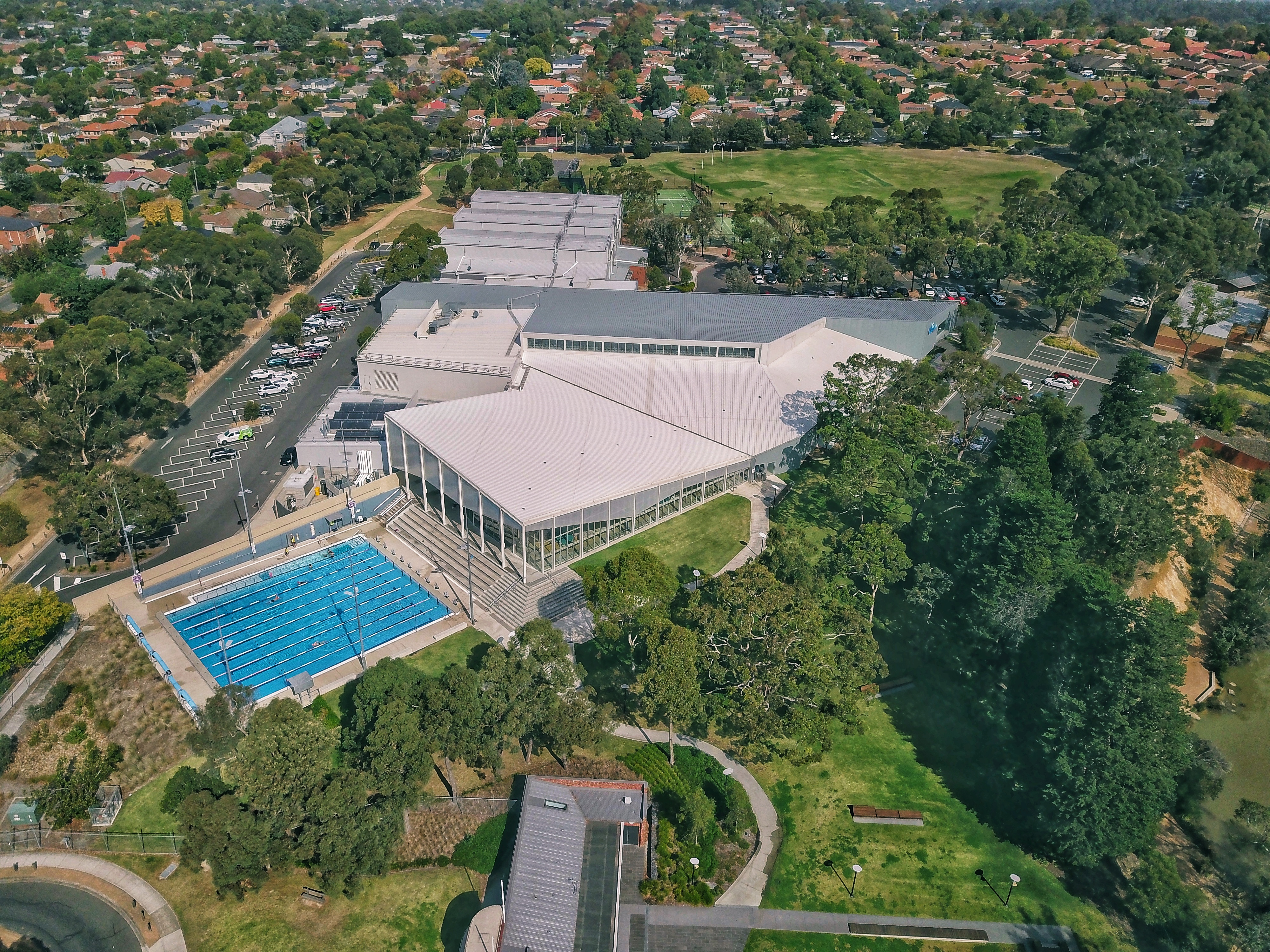 Aerial perspective of Aqualink Box Hill. Taken April 2018.